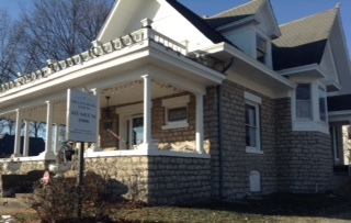 Dillingham-Lewis House Museum, Blue Springs, Missouri